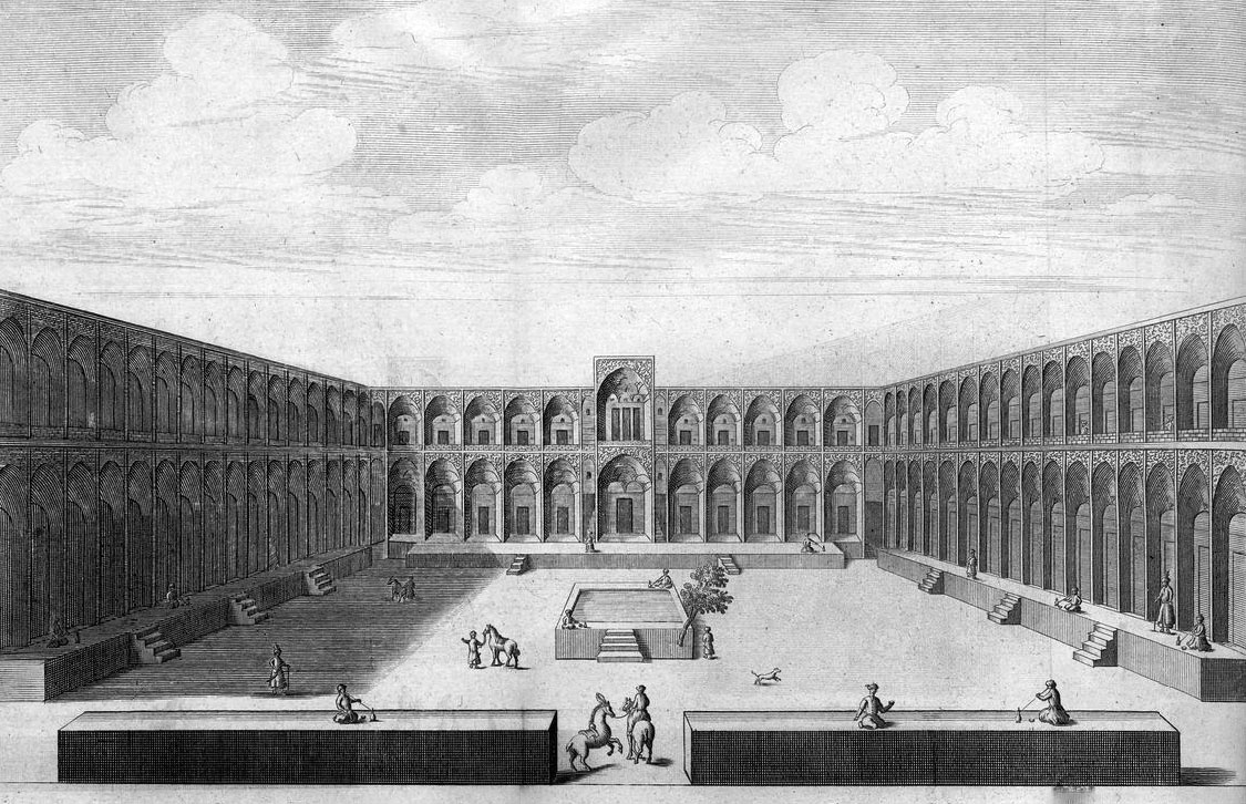 Ilustration of a Caravanseray in Kashan